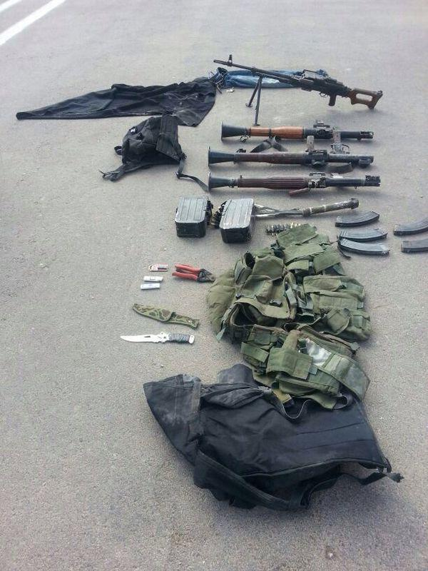 These weapons were seized from terrorists attempting to carry out a massacre in an Israeli community. The terrorists infiltrated Israel through an underground tunnel.